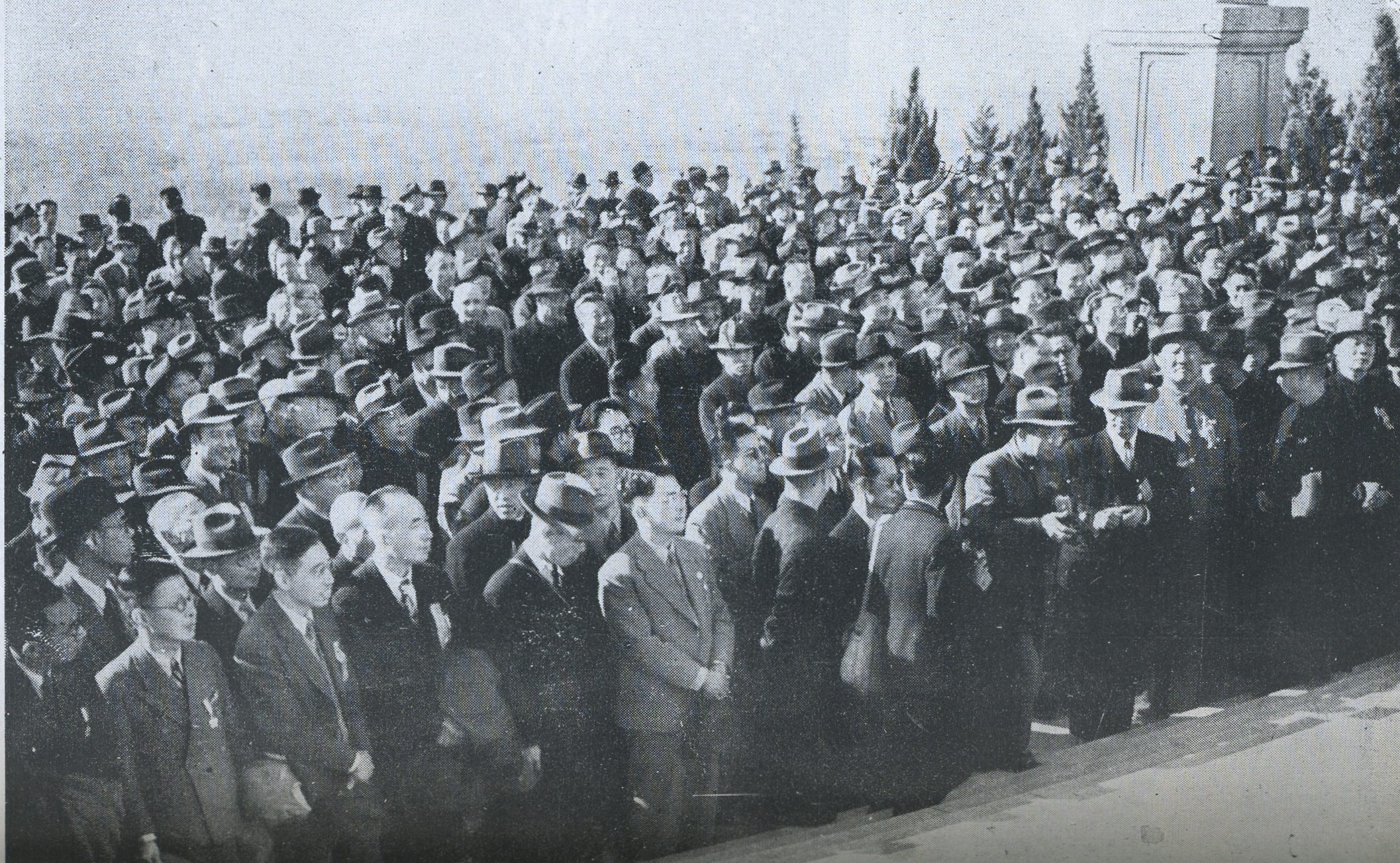 senates at the tomb of father of ROC